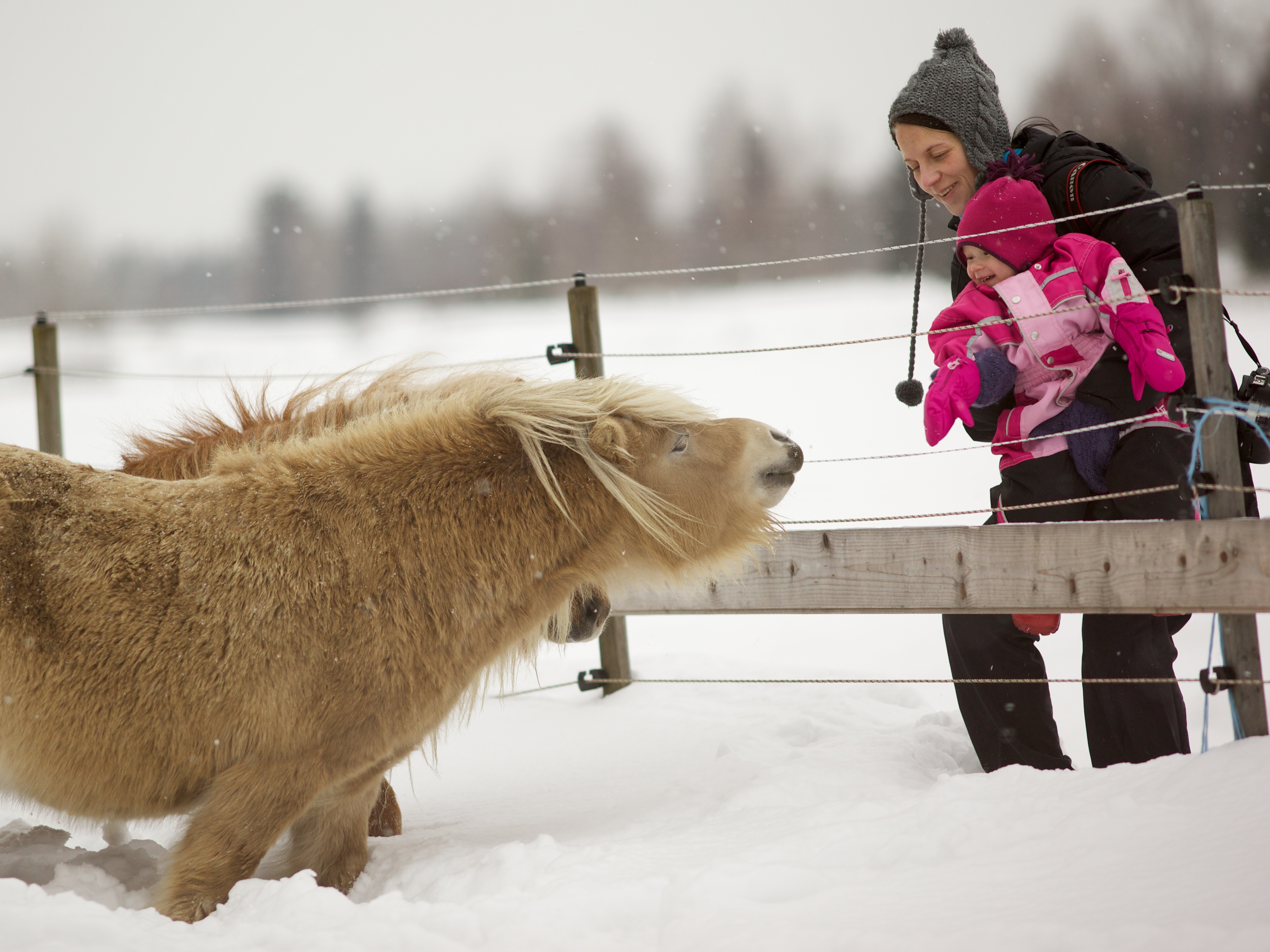 Human baby with horses